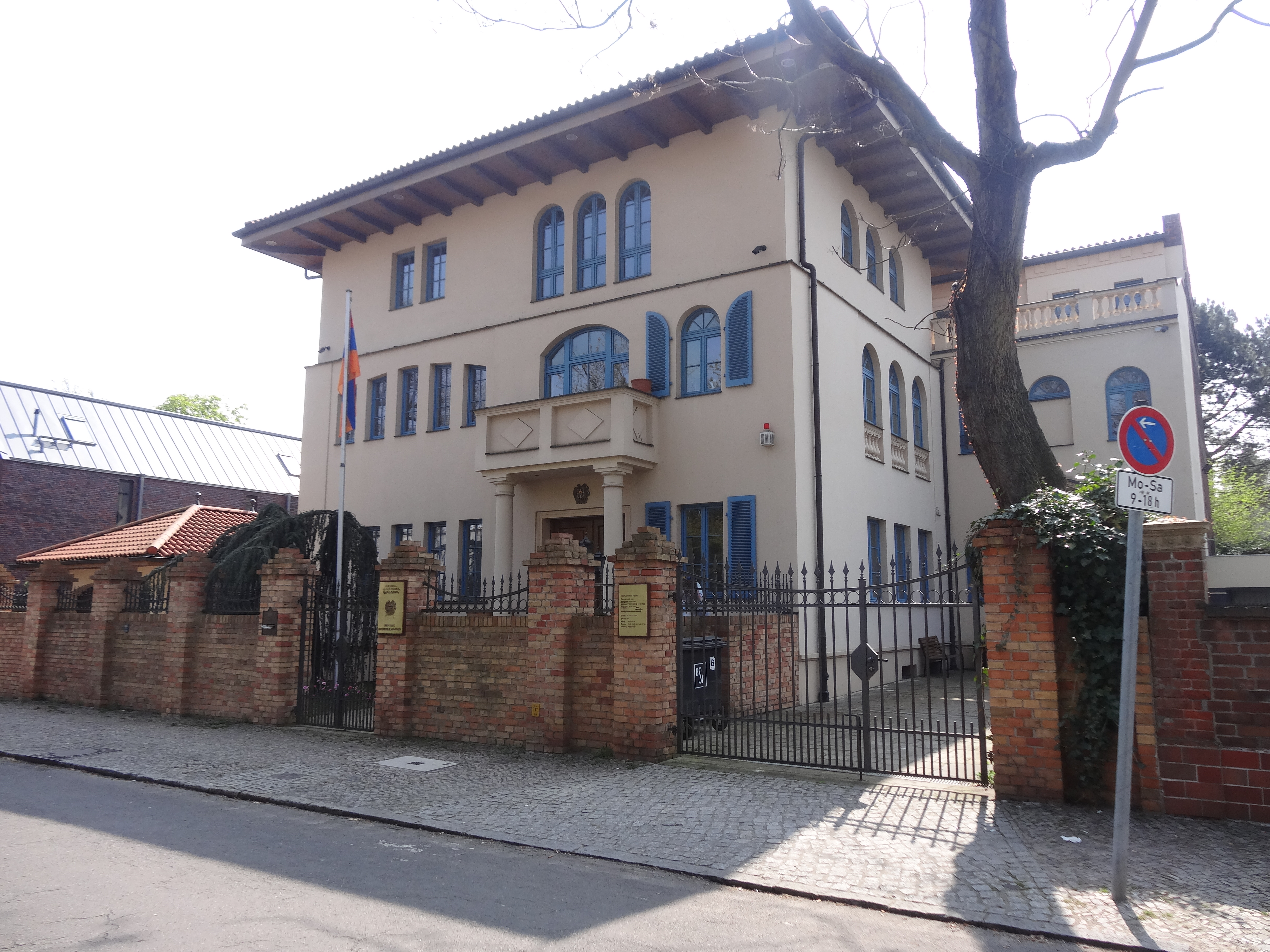 Armenian Embassy in Nußbaumallee 4, Berlin, Germany